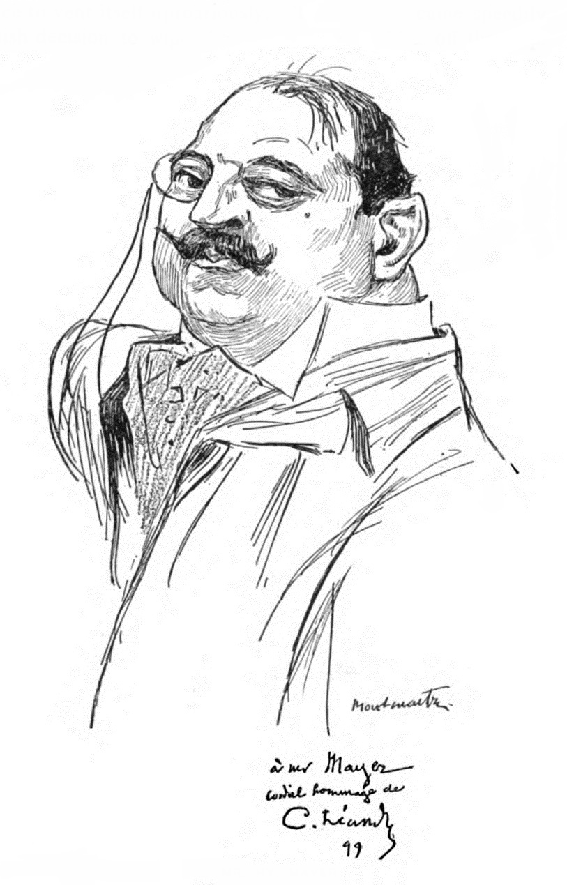 Henry Mayer